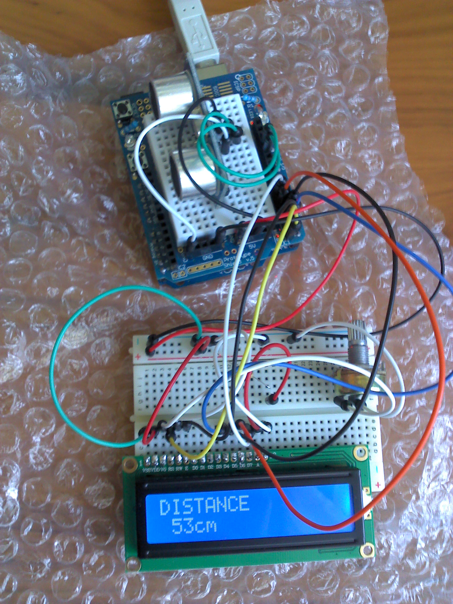 Running a distance sensor